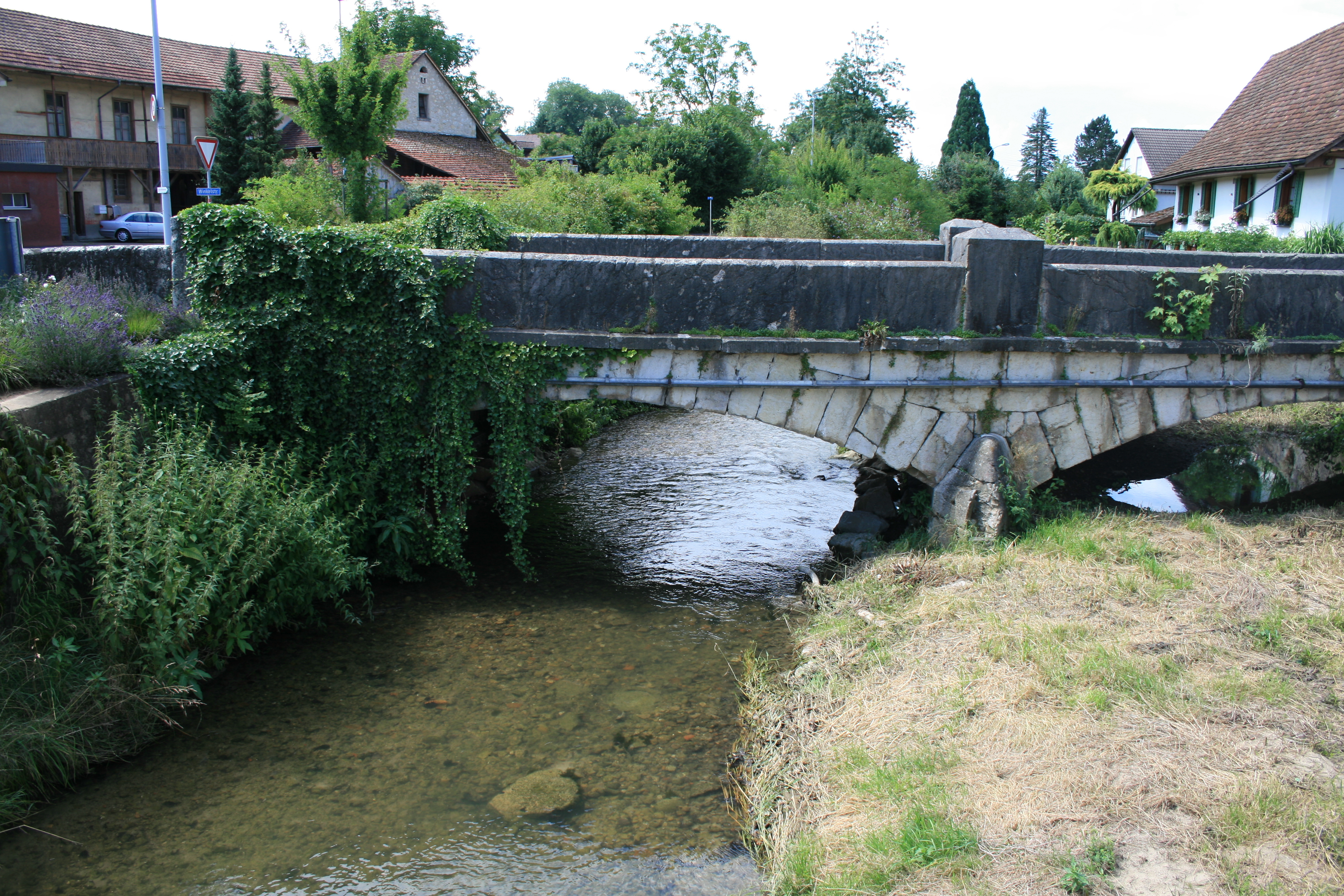 The "Surb" in Endingen , Aargau, Switzerland